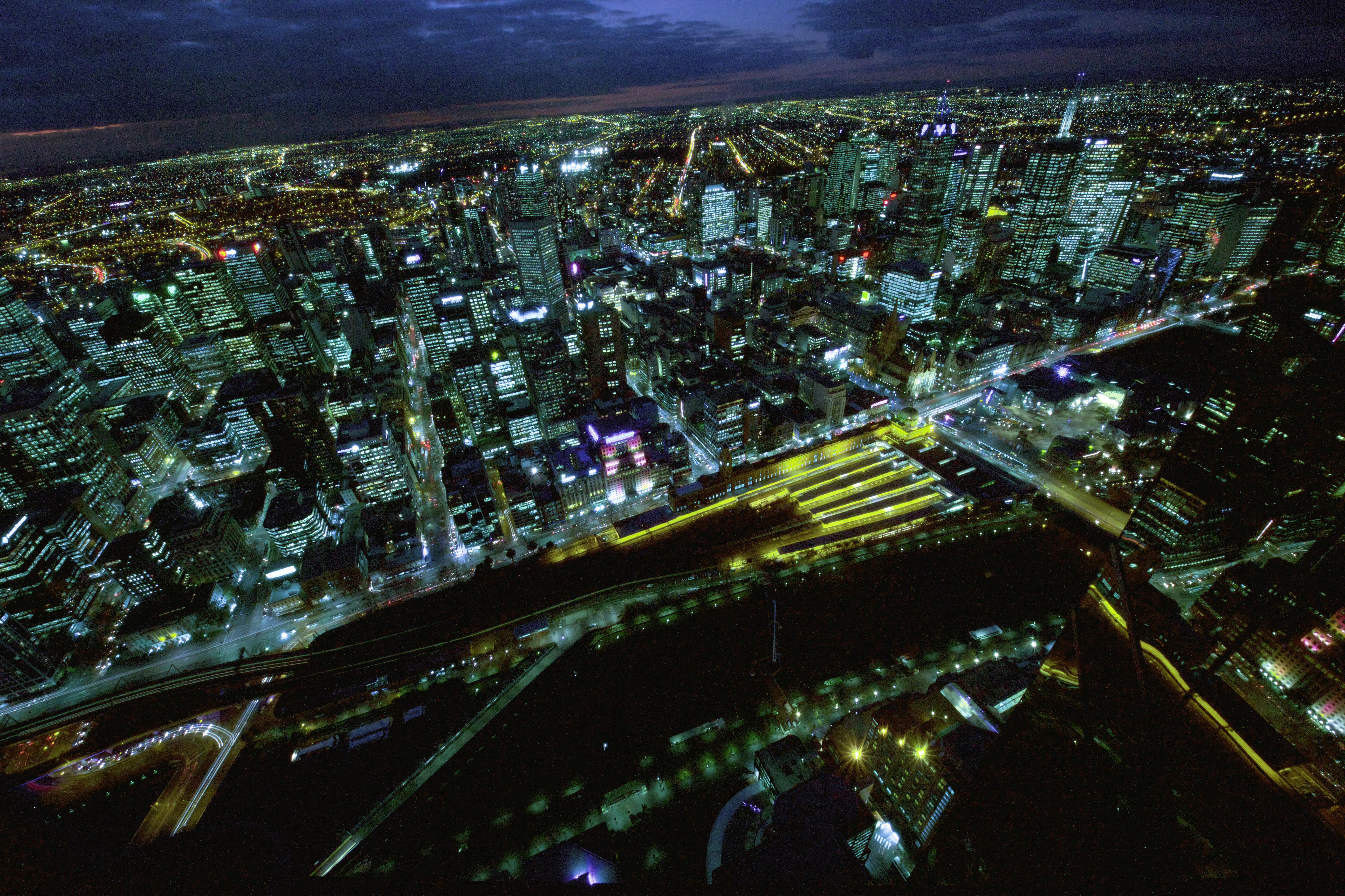 Aerial of Melbourne's Central Business District (CBD) at night.